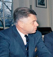 President John F. Kennedy (in rocking chair) meets with newly-appointed Ambassador of Venezuela, Dr. Enrique Tejera París; the ambassador met with President Kennedy to present his credentials. Assistant Secretary of State for Inter-American Affairs, Edwin M. Martin, sits at far left; an unidentified photographer stands in the background. Oval Office, White House, Washington, D.C.